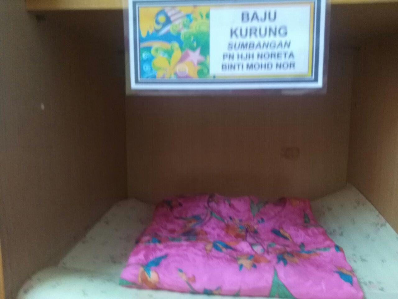 Baju Kurung Sulaman Tangan